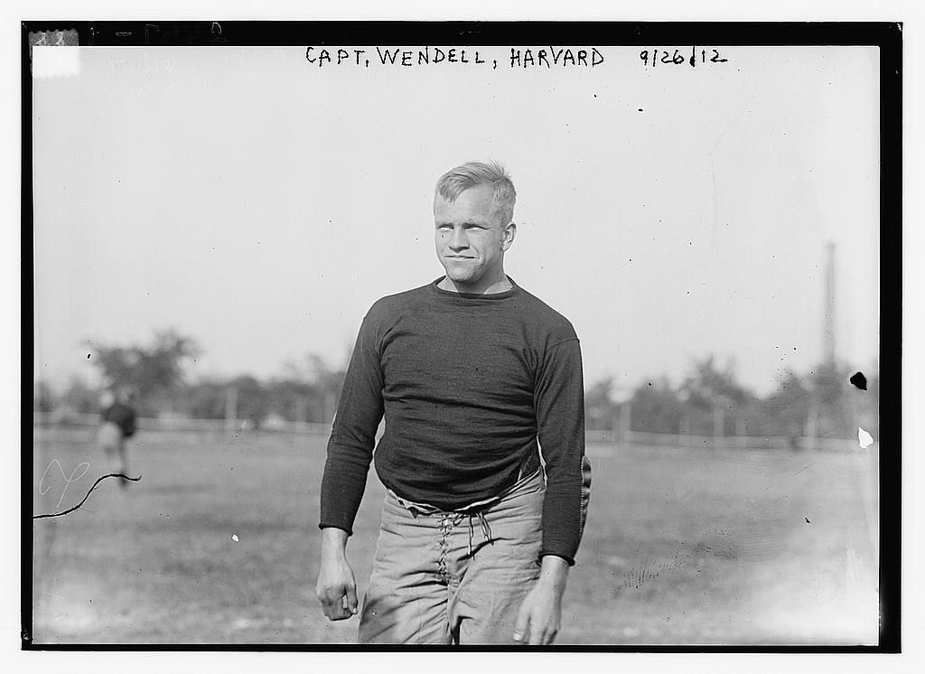 Bain News Service,, publisher. Capt. Percy Langdon Wendell Harvard, 9/26/12 [football player] 09/26/1912. 1 negative : glass ; 5 x 7 in. or smaller. Notes: Title from unverified data provided by the Bain News Service on the negatives or caption cards. Forms part of: George Grantham Bain Collection (Library of Congress). Format: Glass negatives. Repository: Library of Congress, Prints and Photographs Division, Washington, D.C. 20540 USA, General information about the Bain Collection is available at Persistent URL: Call Number: LC-B2- 2457-9